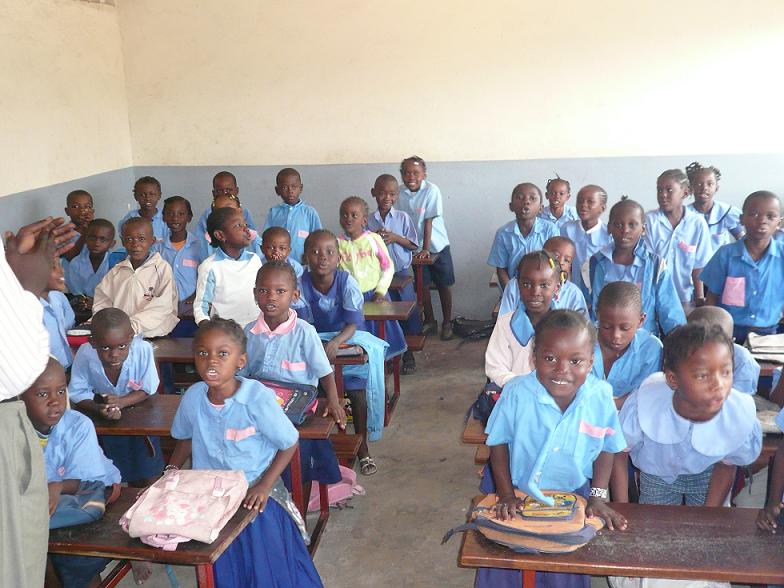 Children